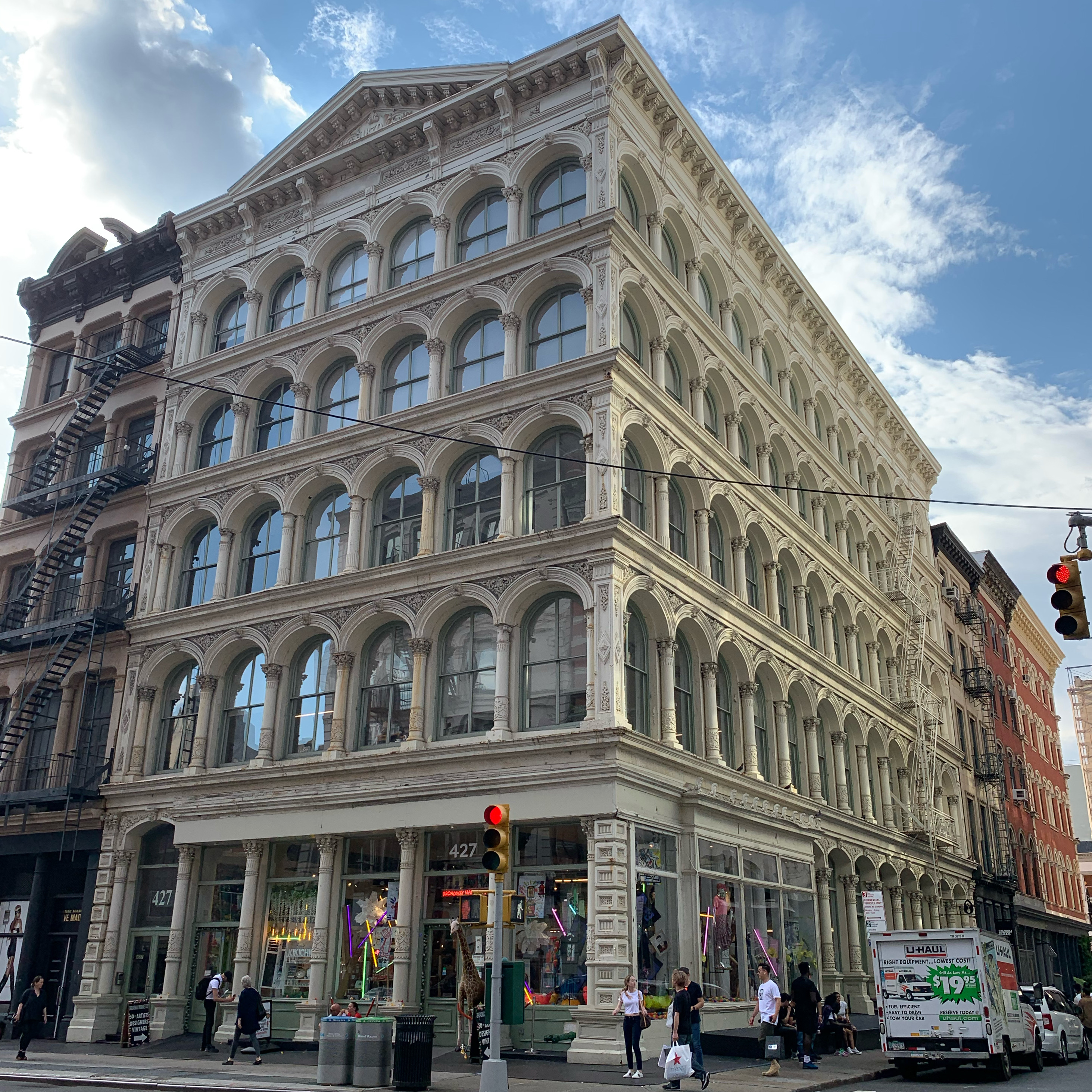 427-429 Broadway is a cast-iron building designed by Thomas R. Jackson in 1870 as a warehouse for the A. J. Dittenhofer dry goods company. Taken October 2, 2019.